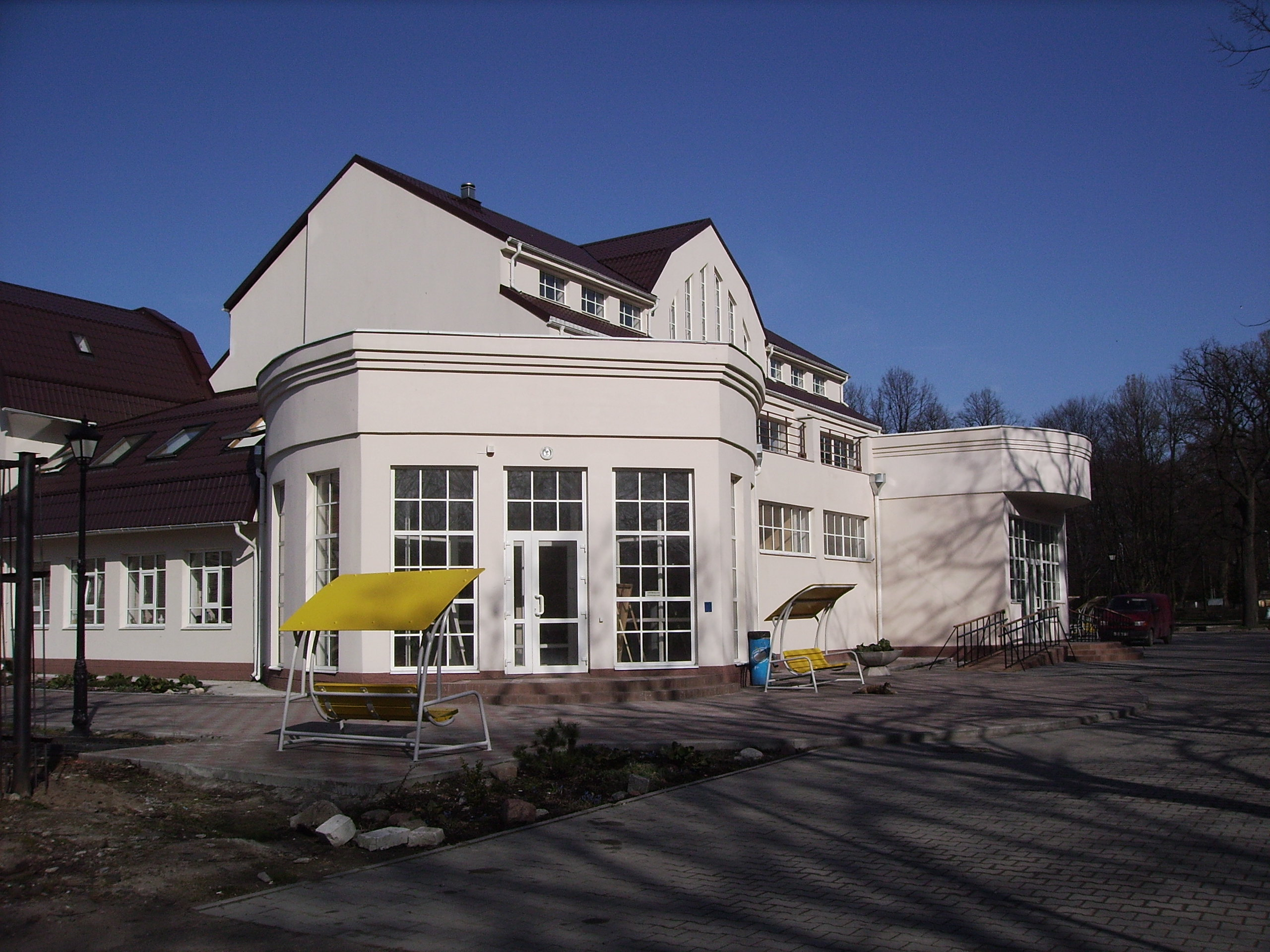 This building in Kaliningrad zoo was build as restaurant in 1911. After wthe war, it was rebuild as elephant house. Recently it have been restored and now it houses zoo's administration. The building is protected as historical monument.